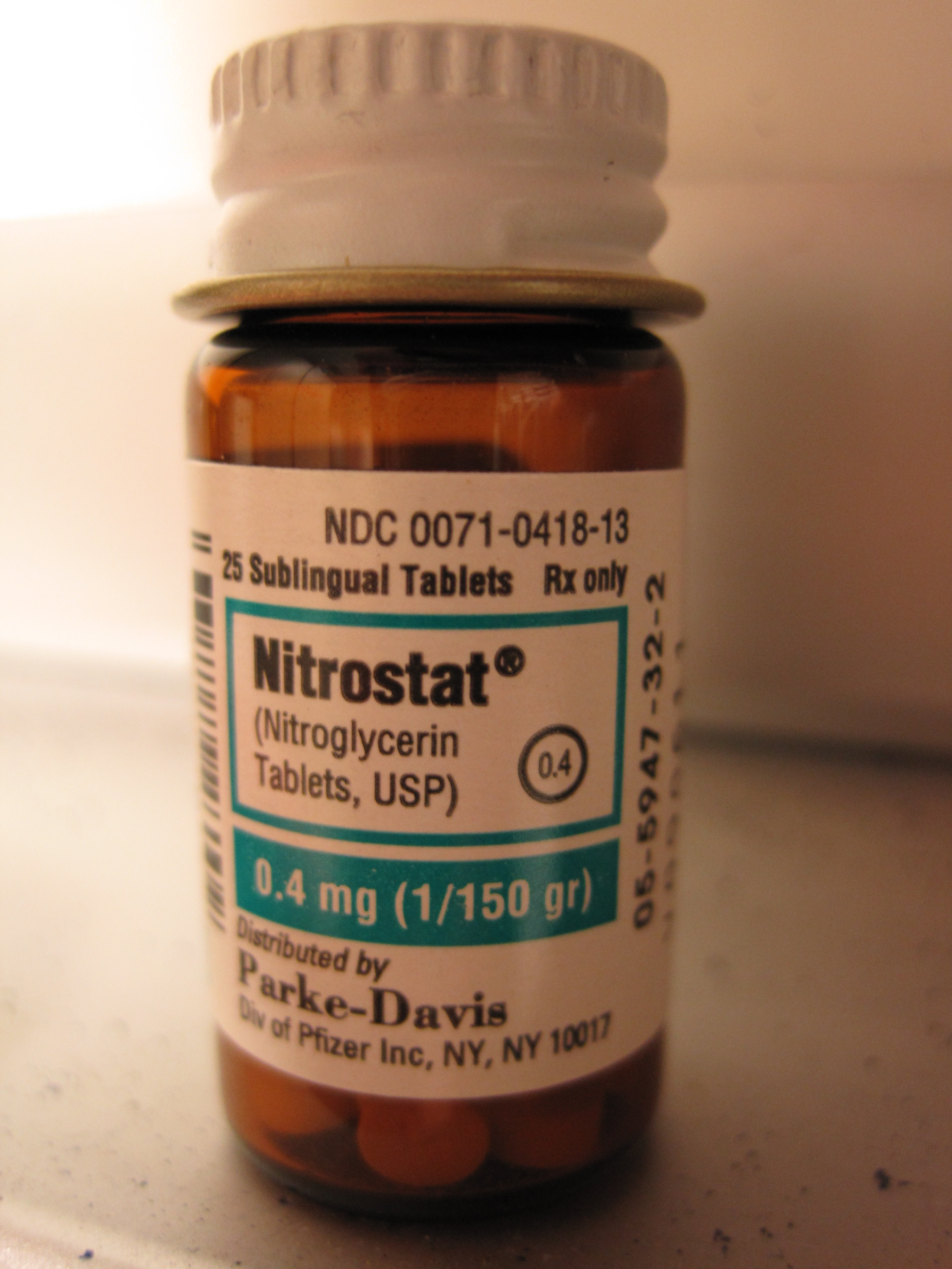 Nitroglycerin, tablets for sublingual administration.